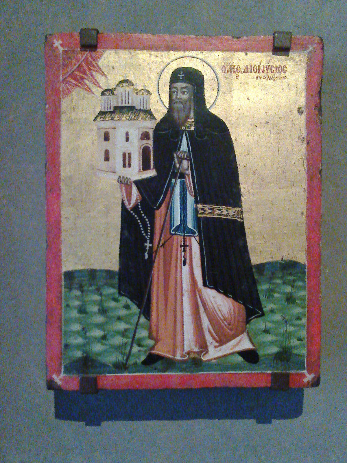 Saint Dionysios of Olympus, late 18th century icon (Museum of Byzantine Culture, Thessaloniki).